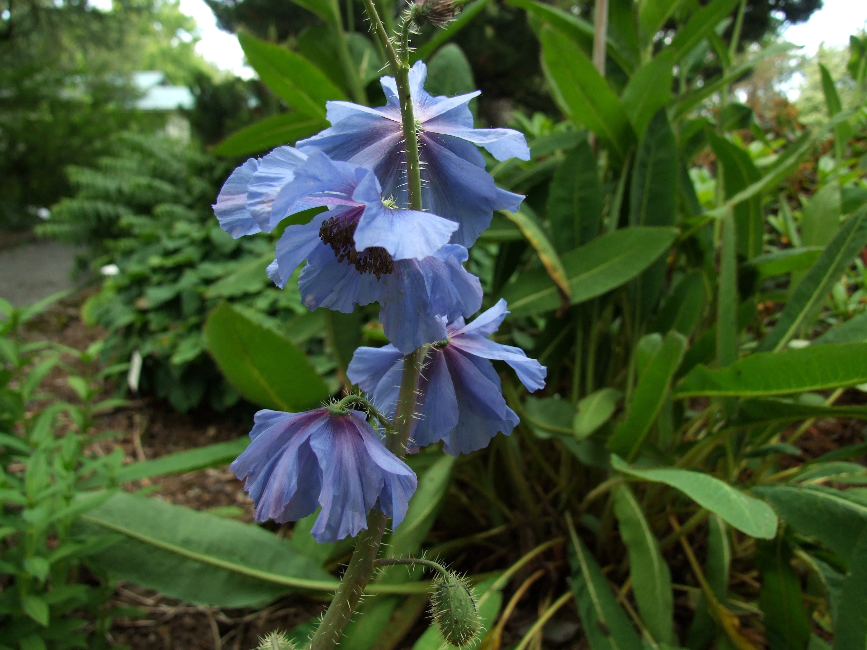 Meconopsis forrestii 2 (Reykjavík BG)